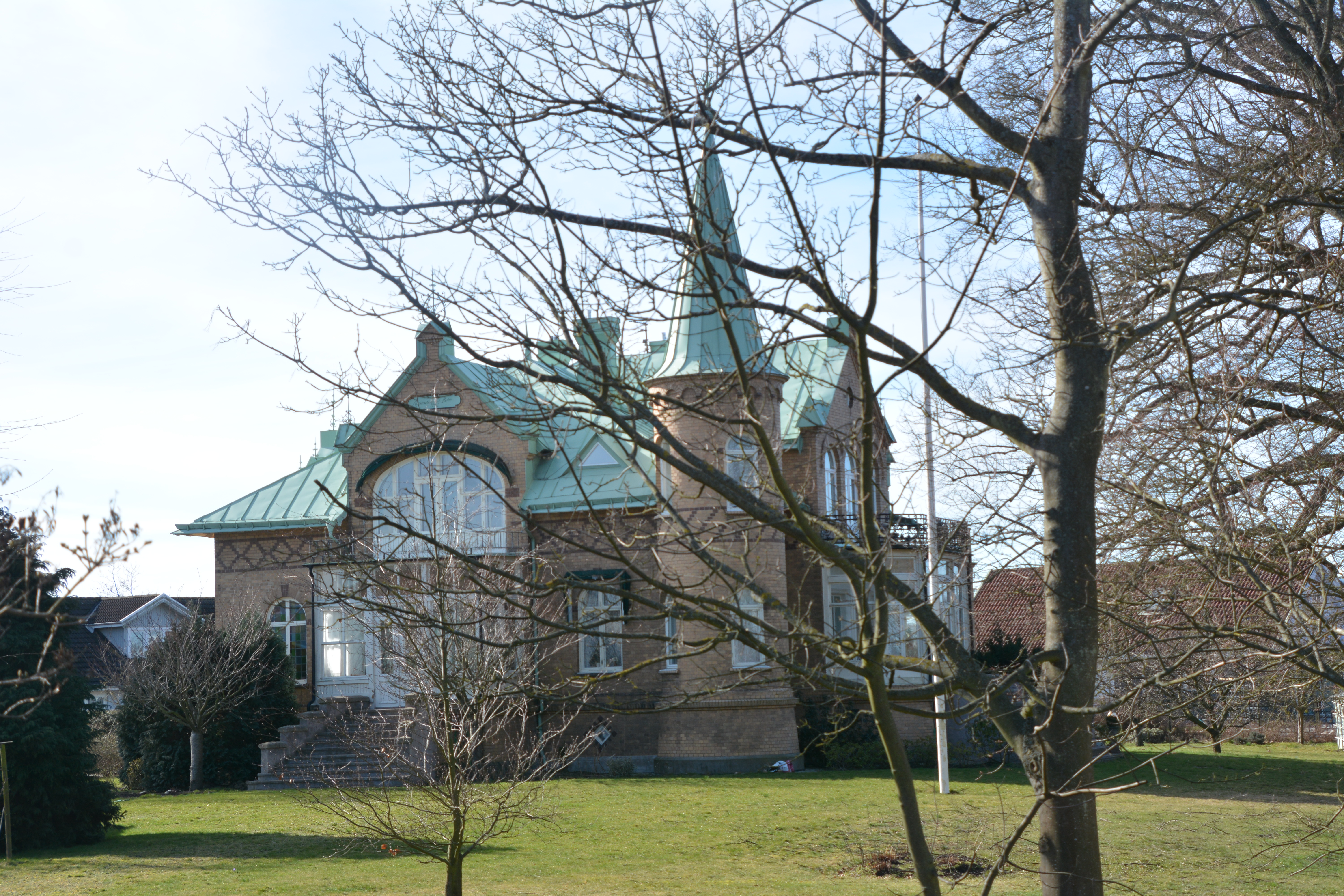 Ammemarieholm Mansion, Häljarp